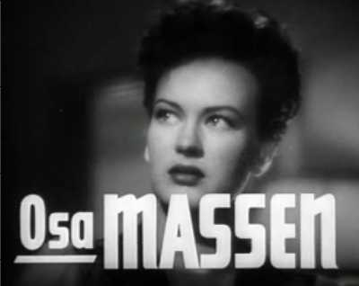 Cropped screenshot of Osa Massen from the trailer for the film A Woman's Face